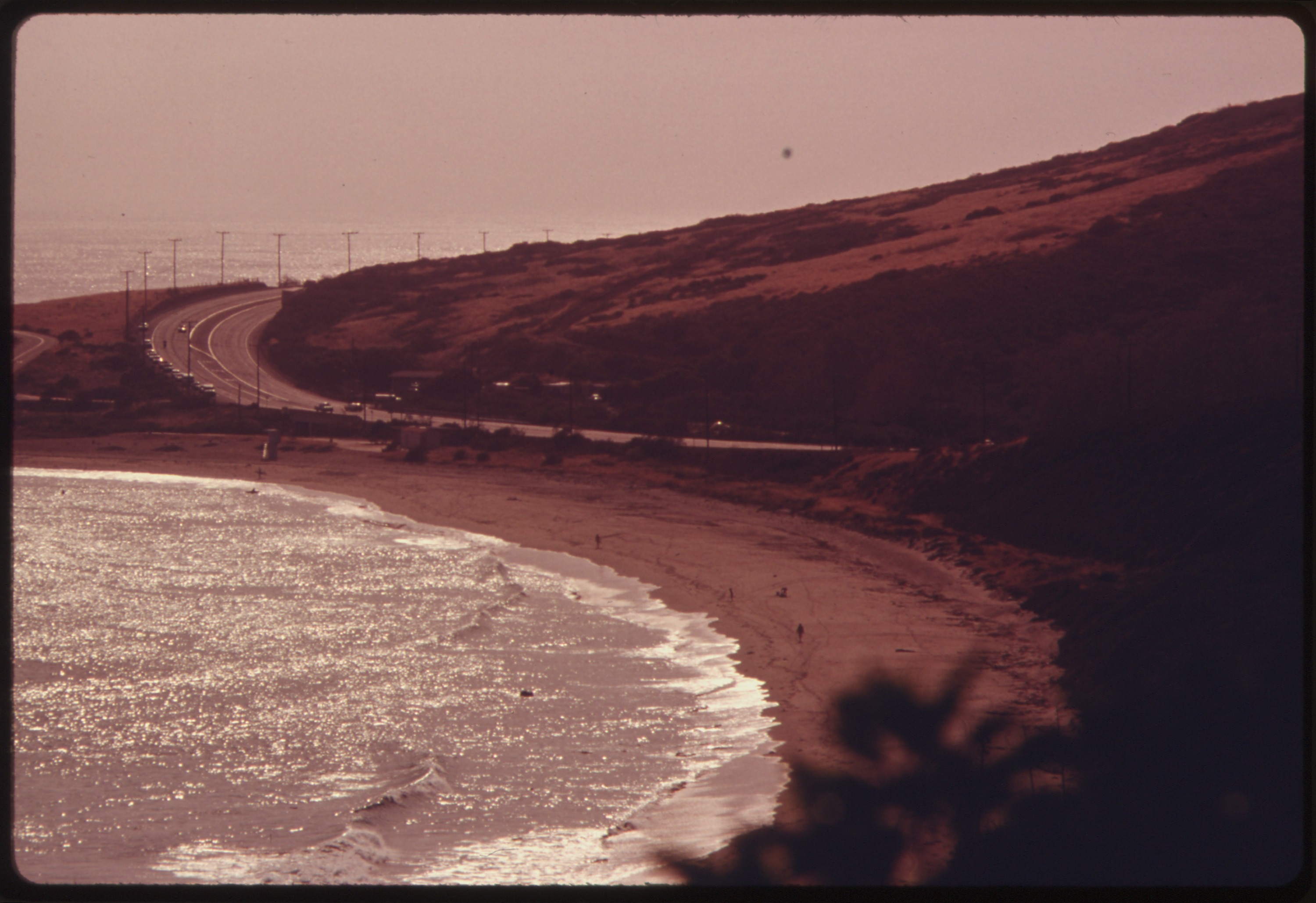 Scope and content: U.S. #1 NEAR THE PACIFIC OCEAN NORTH OF MALIBU, CALIFORNIA, ON THE NORTHWESTERN EDGE OF LOS ANGELES COUNTY. THE SANTA MONICA MOUNTAINS ARE LOCATED NEARBY, THE LAST SEMI-WILDERNESS IN LOS ANGELES COUNTY. THE AREA IS THREATENED WITH DEVELOPMENT. SOME 84 PERCENT OF THE STATE's RESIDENTS LIVE WITHIN 30 MILES OF THE COAST, AND THIS CONCENTRATION HAS RESULTED IN INCREASED LAND USE PRESSURE SEVERAL COMMISSIONS HAVE BEEN SET UP TO RESTRICT COASTAL DEVELOPMENTS AND RECOMMEND FUTURE GUIDELINES TO THE STATE LEGISLATURE